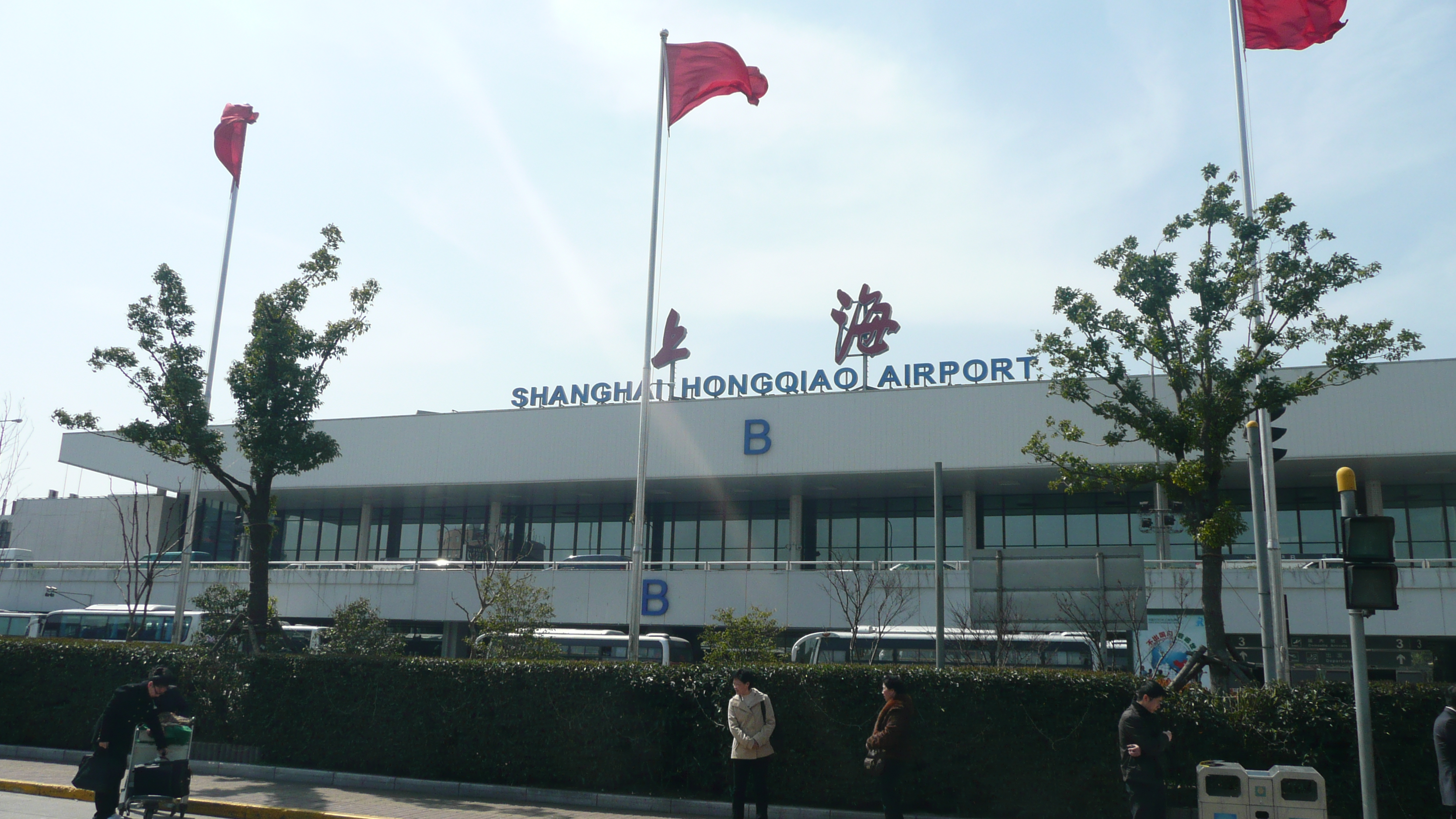 Airport Shanghai-Hongqiao